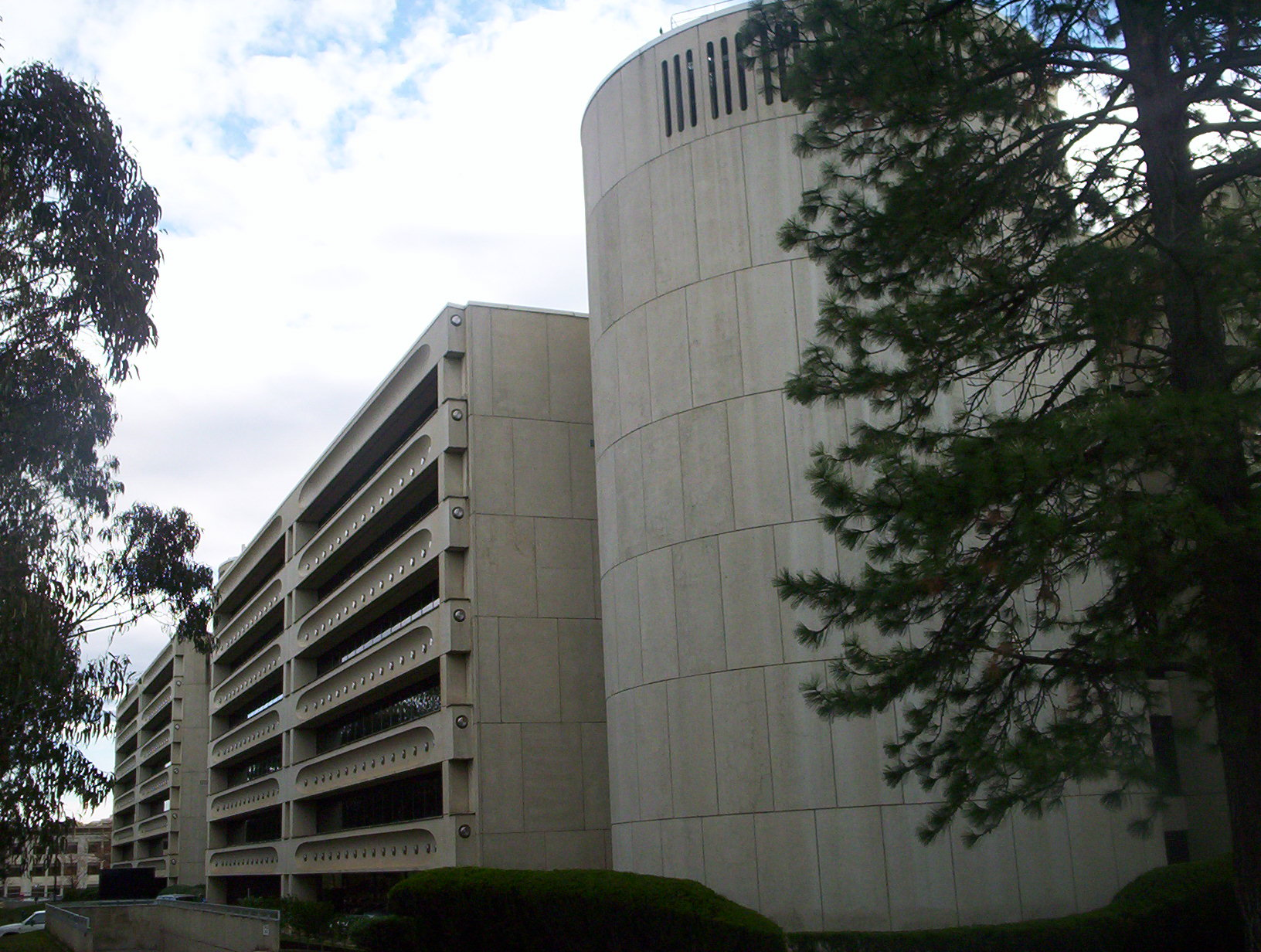 The controversial Edmund Barton building in Canberra. I took the photo. Cfitzart 14:32, 24 August 2005 (UTC)